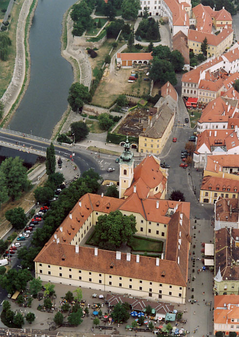 Monastery - Győr - Hungary - Europe